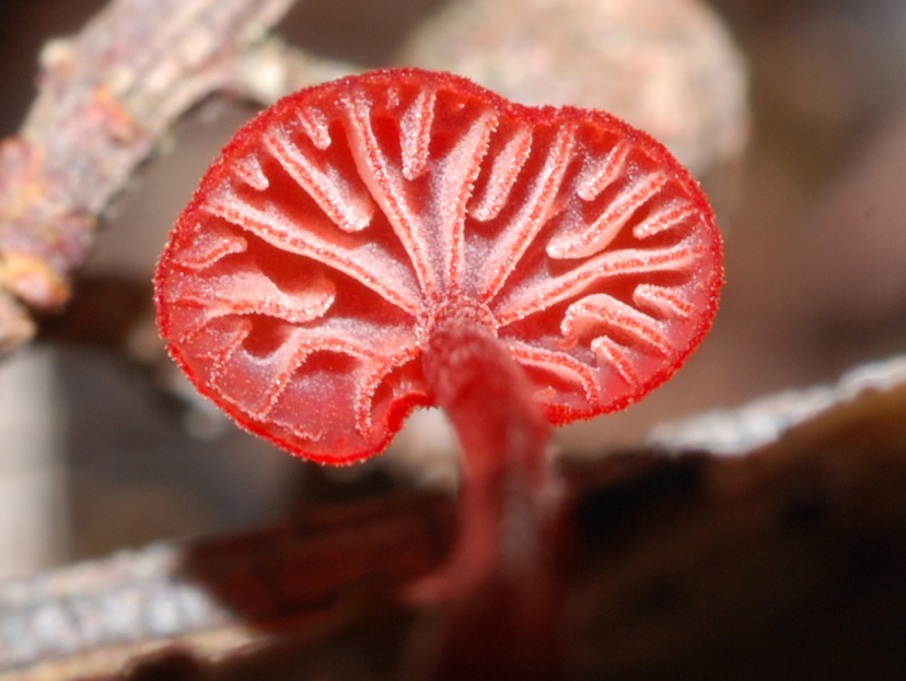 The gills of the mushroom Mycena minirubra G.Stev. & G.M.Taylor (1964). Specimen found in Kaipara harbour, Auckland, New Zealand. Original photo cropped by uploader.